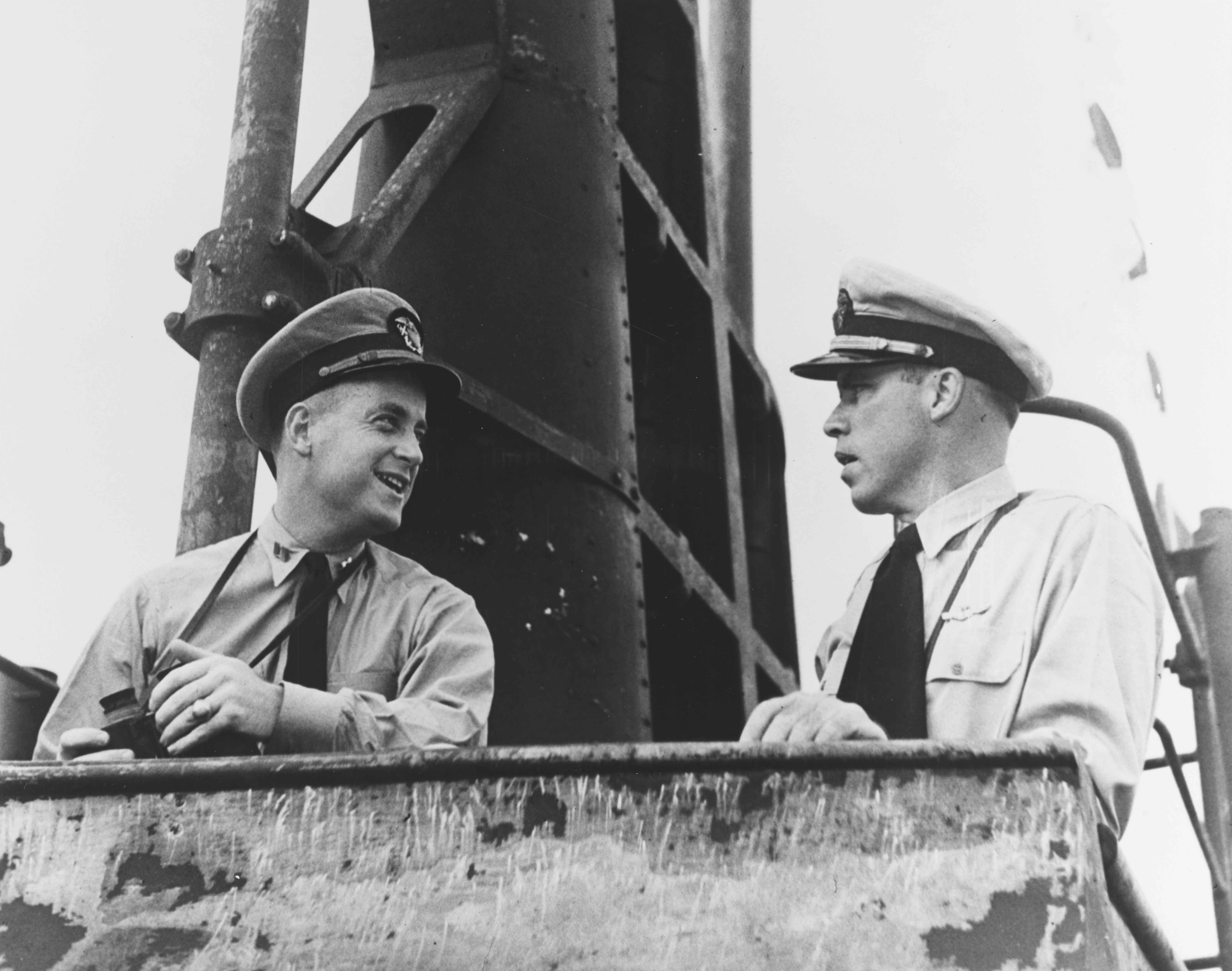 Lieutenant Commander Dudley W. Morton, USN, Commanding Officer of the U.S. Navy submarine USS Wahoo (SS-238), at right with his Executive Officer, Lieutenant Richard H. O'Kane, on Wahoo's open bridge, at Pearl Harbor, Hawaii, after her very successful third war patrol, circa 7 February 1943.